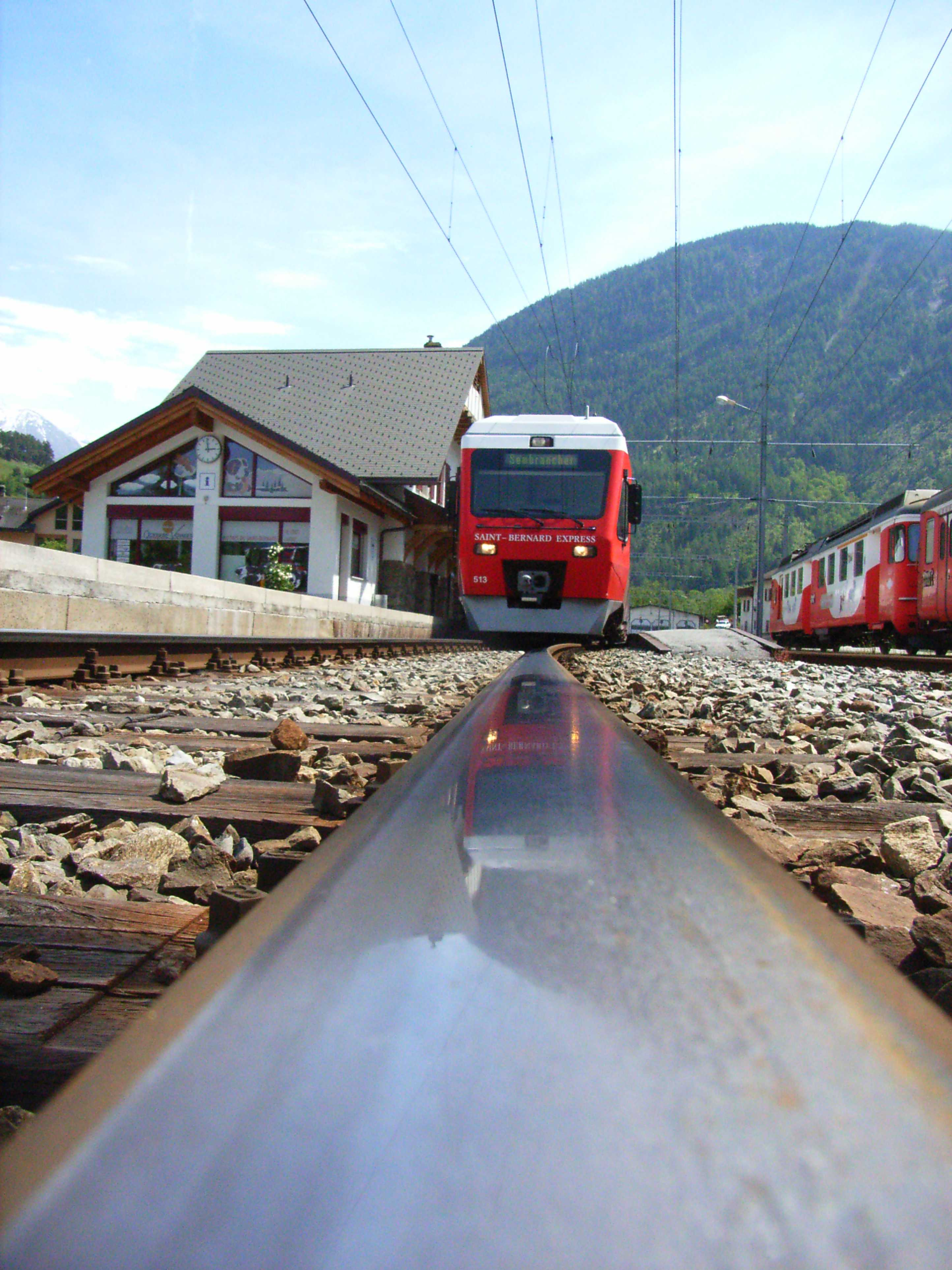 Saint-Bernard Express (Switzerland, Valais, Orsières)